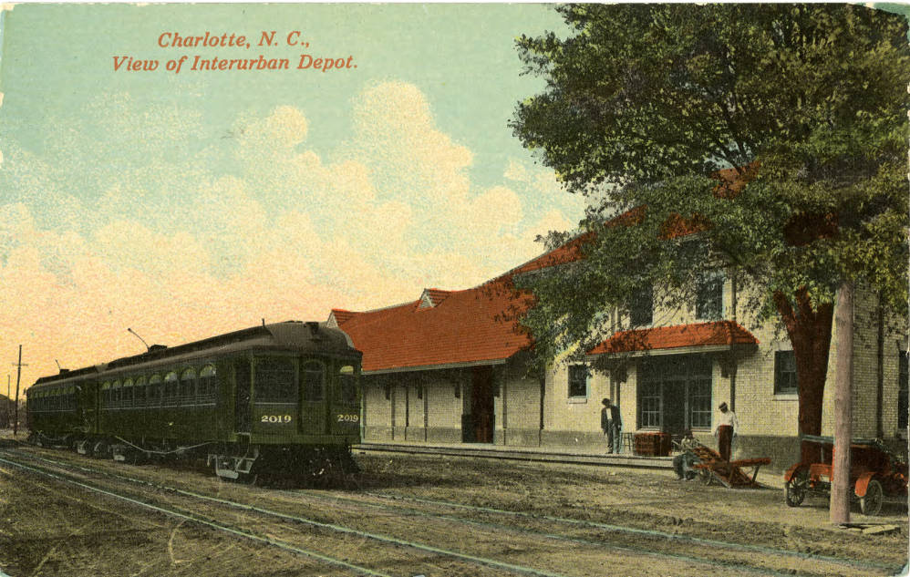 Piedmont & Northern Railway interurban passenger depot, built in 1912, was located at the Mint/Graham/Third St/Fourth Street block in Charlotte, North Carolina.